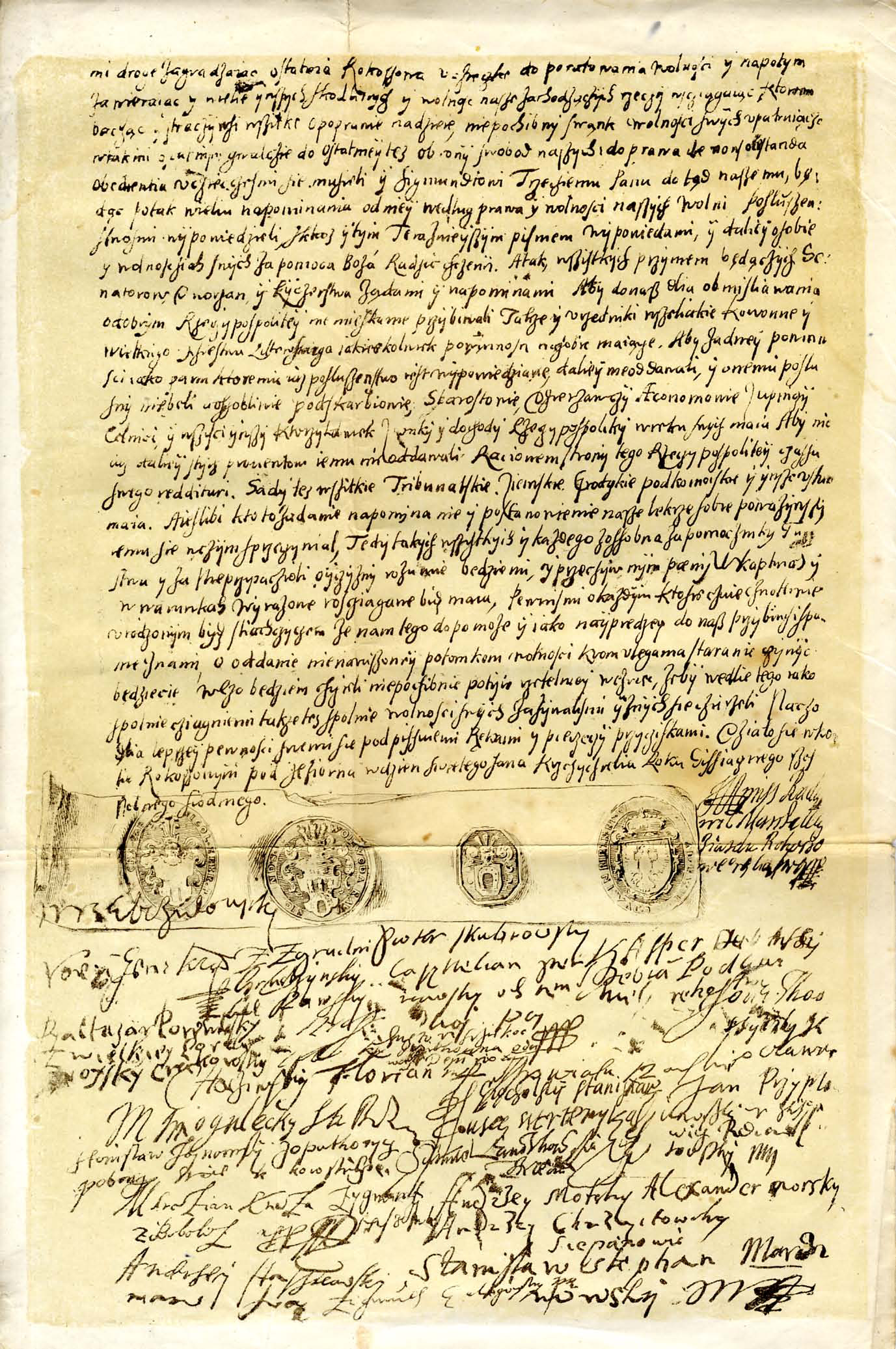 Sandomierska Confederation act 1607